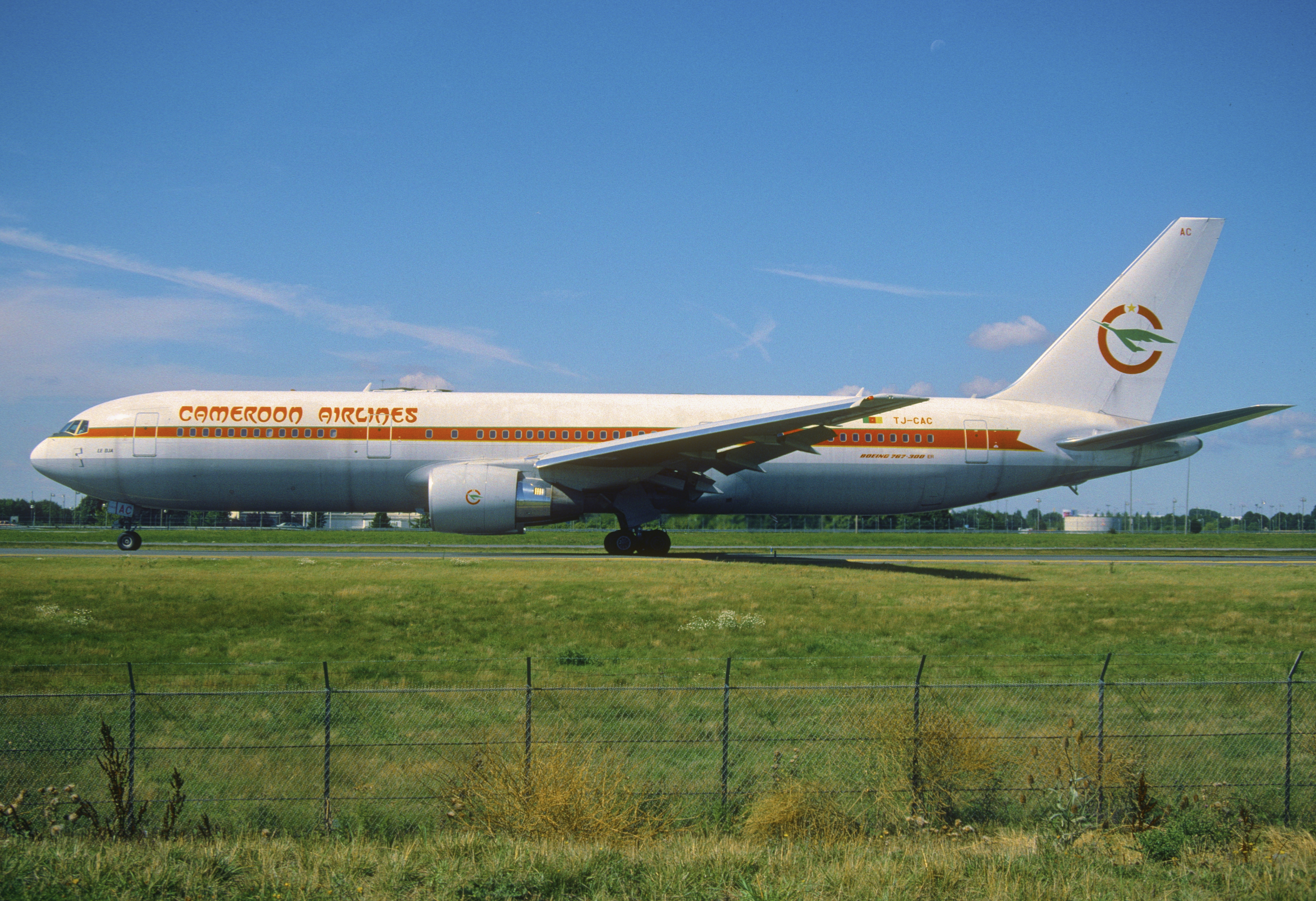 This Boeing 767-33AER took its first flight on January 5, 2001... (c/n 28138/ 822) 19/01/2001 Cameroon Airlines TJ-CAC 11/11/2009 Camair Co TJ-CAC